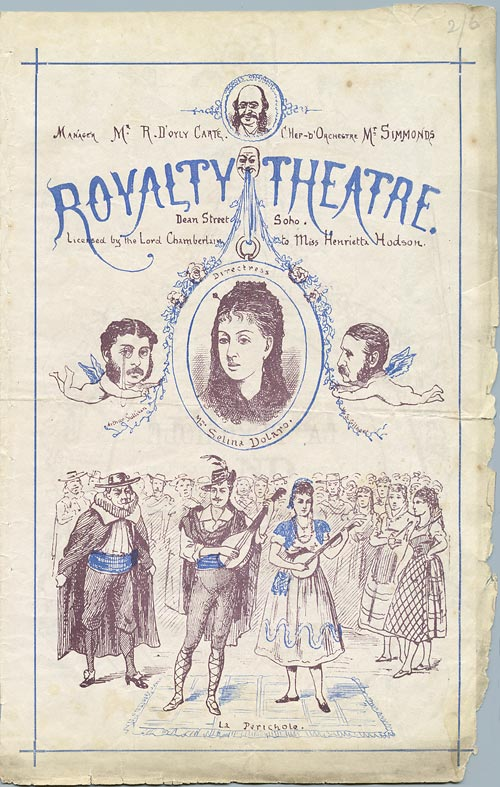 Front cover of the programme for the original run of Trial by Jury. While La Perichole was the main production, Trial by Jury got a lavishly illustrated page (see Image:Trial Programme Page 3.jpg).